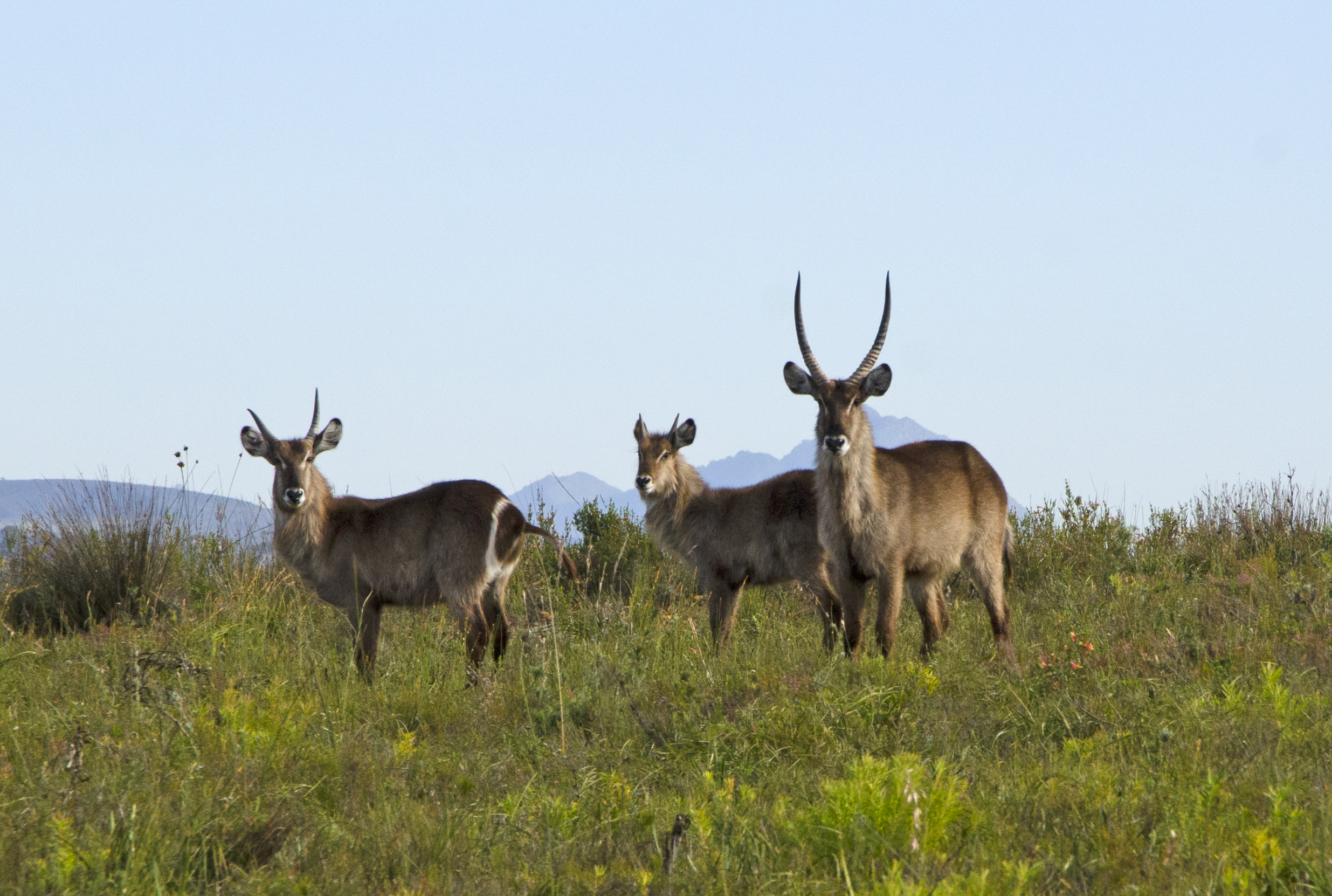 Kobus ellipsiprymnus in Botlierskop Private Game Reserve, South Africa